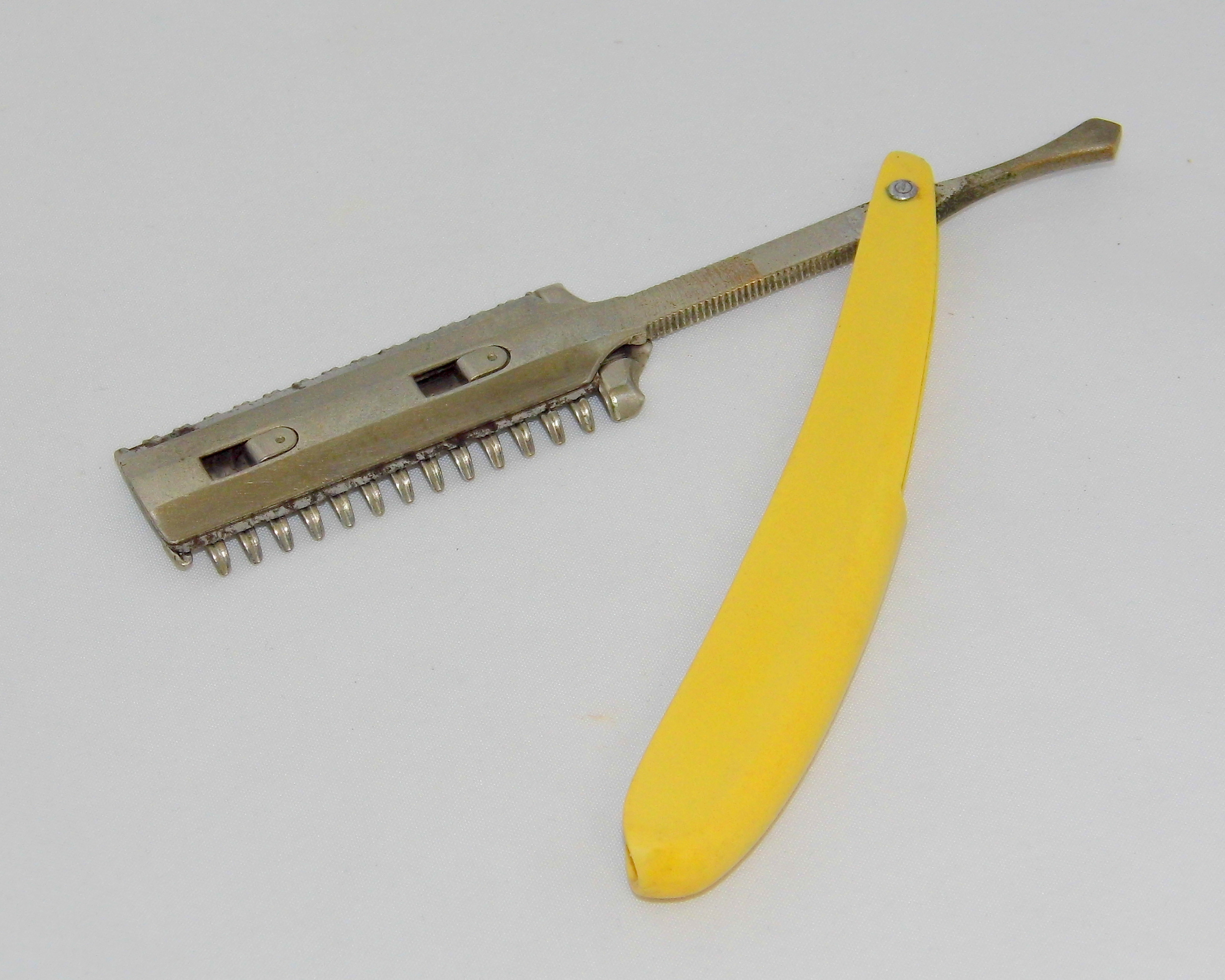 Vintage Durham-Duplex Straight Razor, The Blades Men Swear By--Not At, Made In USA